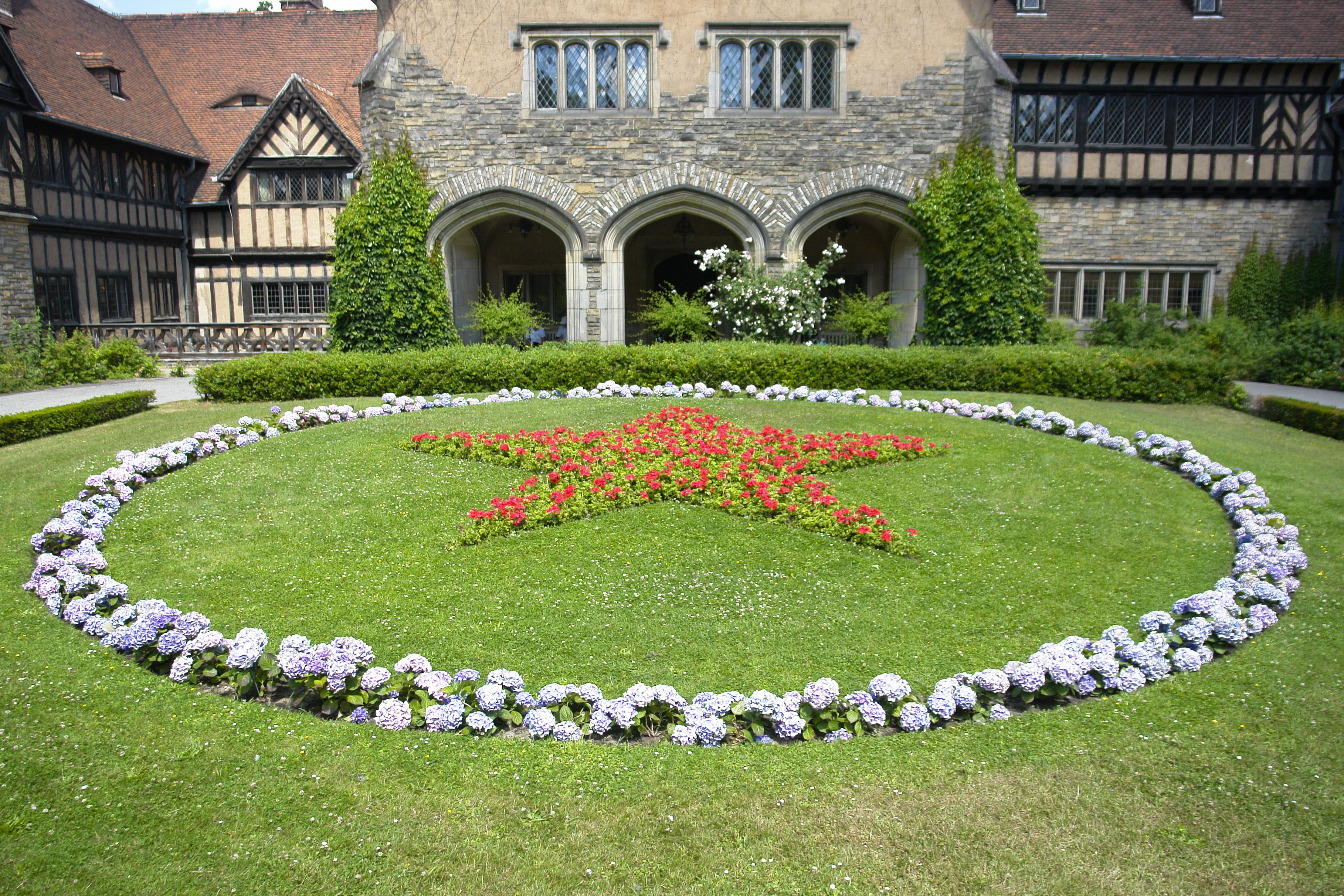 this is the inner courtyard of the Cecilienhof castle in the Neuer Garten park in Potsdam. the place has quite a history, since it was here that the declaration ending World War II in Europe was signed between Stalin, Churchill, and Truman in 1945. the red star of flowers in the center of the courtyard was planted by Russian soldiers for the Potsdam Conference. the day we visited Cecilienhof was too beautiful really to take one of the tours. I'm sure we'll get around to do that some day... Cecilienhof @ Potsdam Conference @